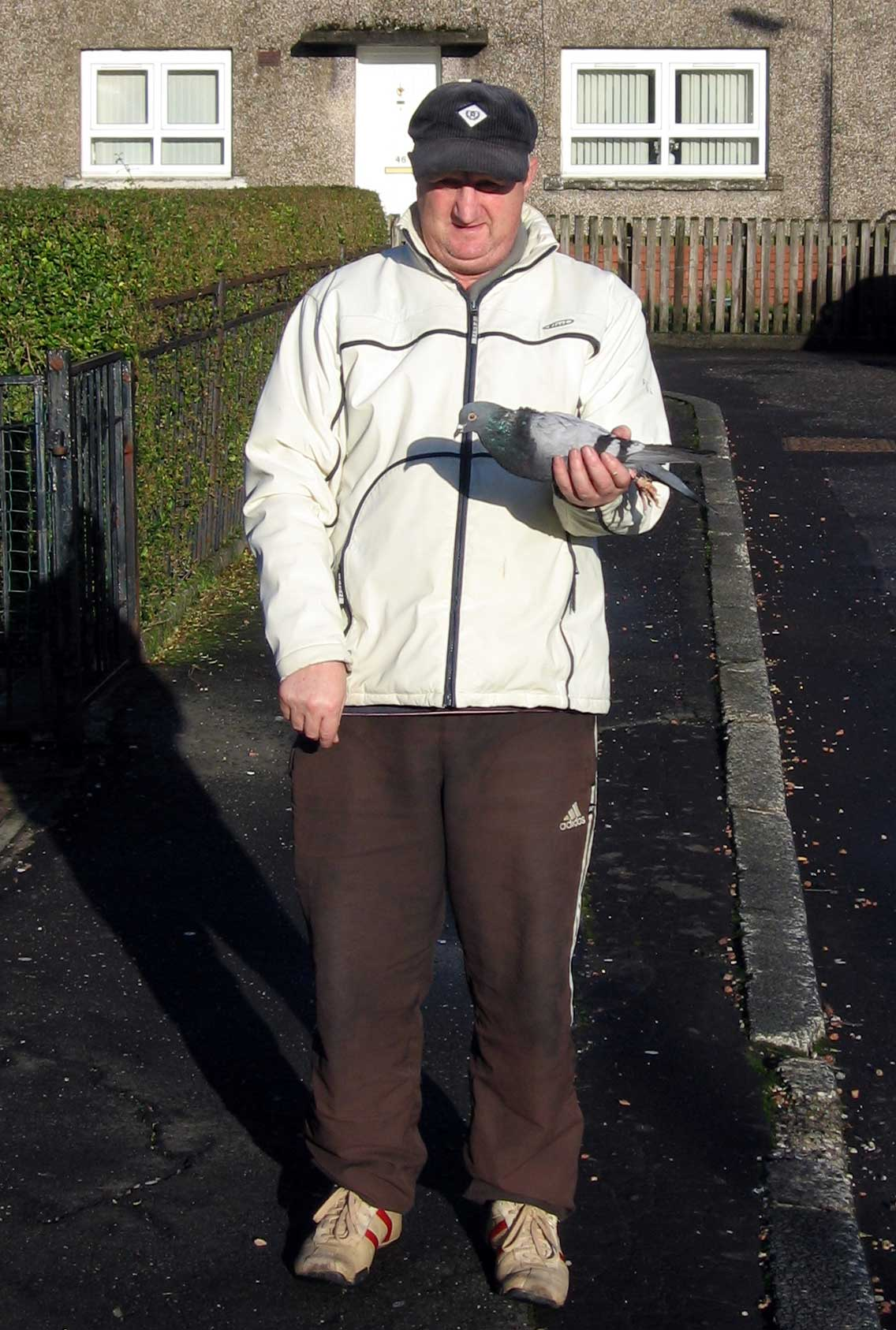 Pigeon fancier with one of his racing pigeons in Greenock, Scotland.